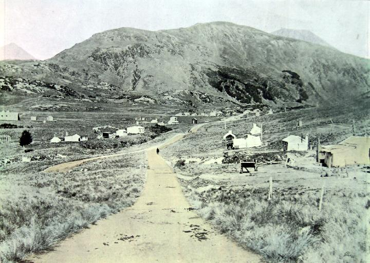 Cass. The present terminus of the Midland Railway. The buildings seen are workmen’s homes, the school, and the stores.